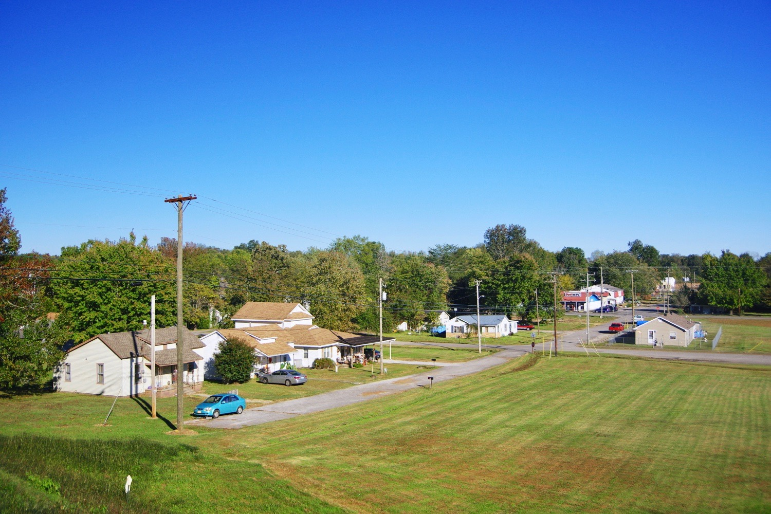 View along Walnut Street in Nortonville, Kentucky, United States.